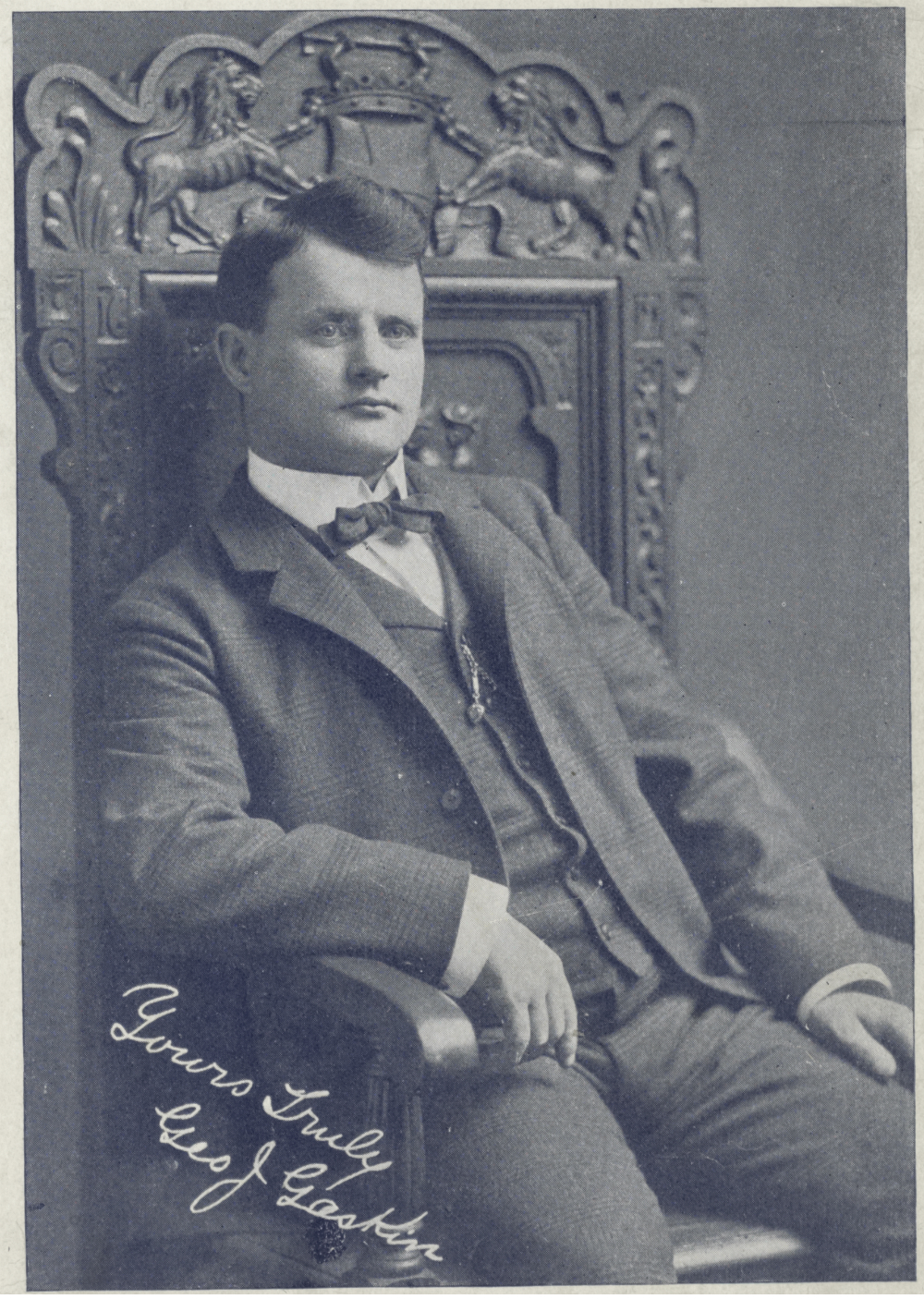 Photo portrait of pioneer recording artists George J. Gaskin included in the Nov. 1896 issue of The Phonoscope magazine.